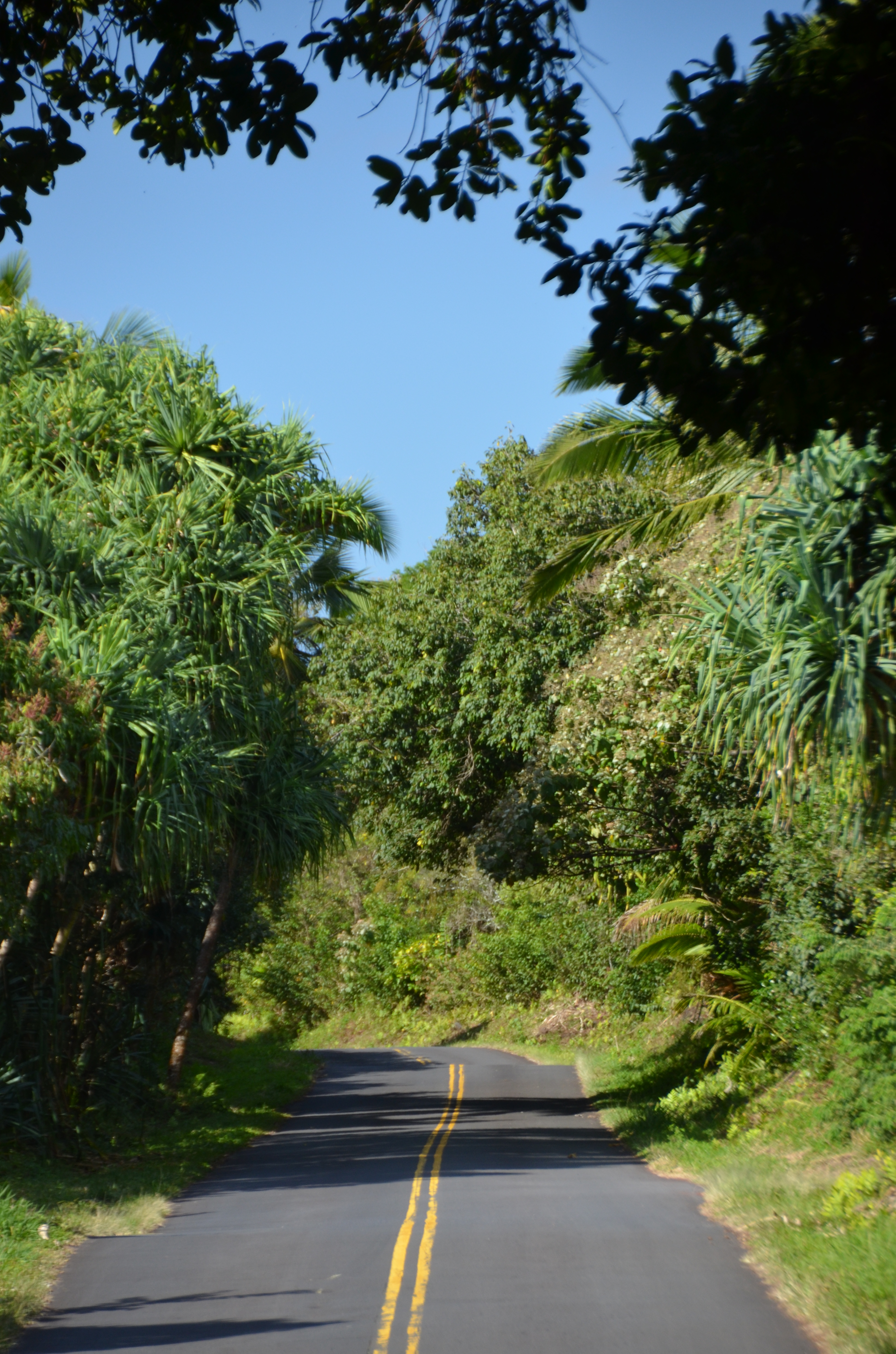 The "Red Road" in front of Kalani (a0004883)